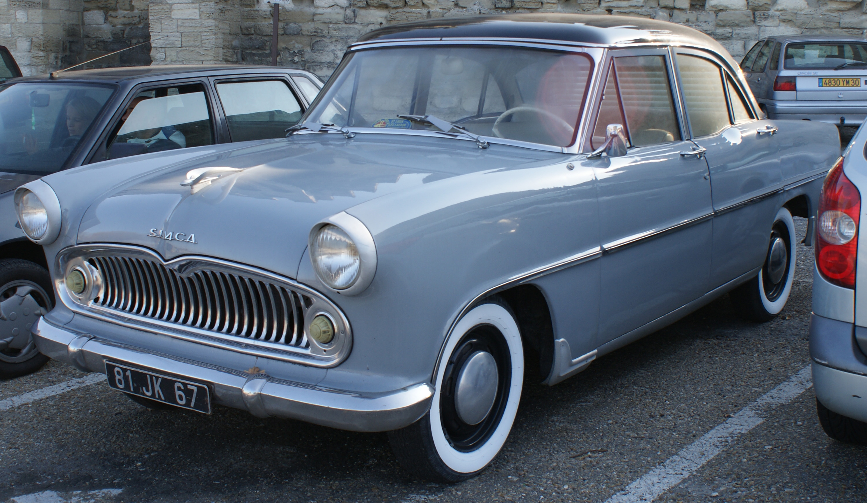 Simca Ariane photographed in France.